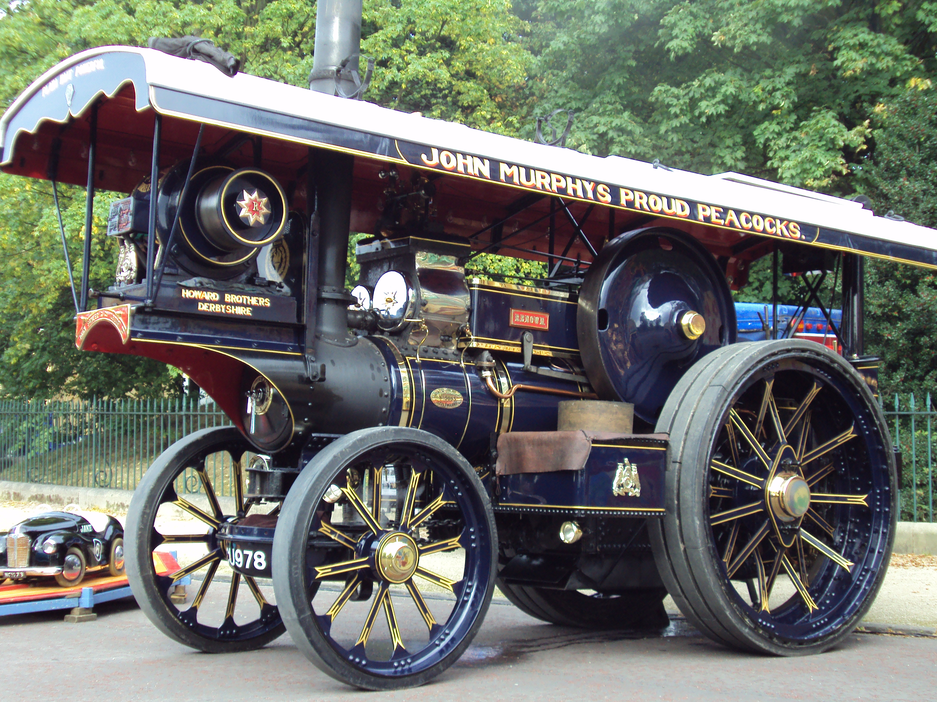 Traction engine at the 2009 Festival of Transport, Birkenhead Park, Birkenhead, Merseyside, England.